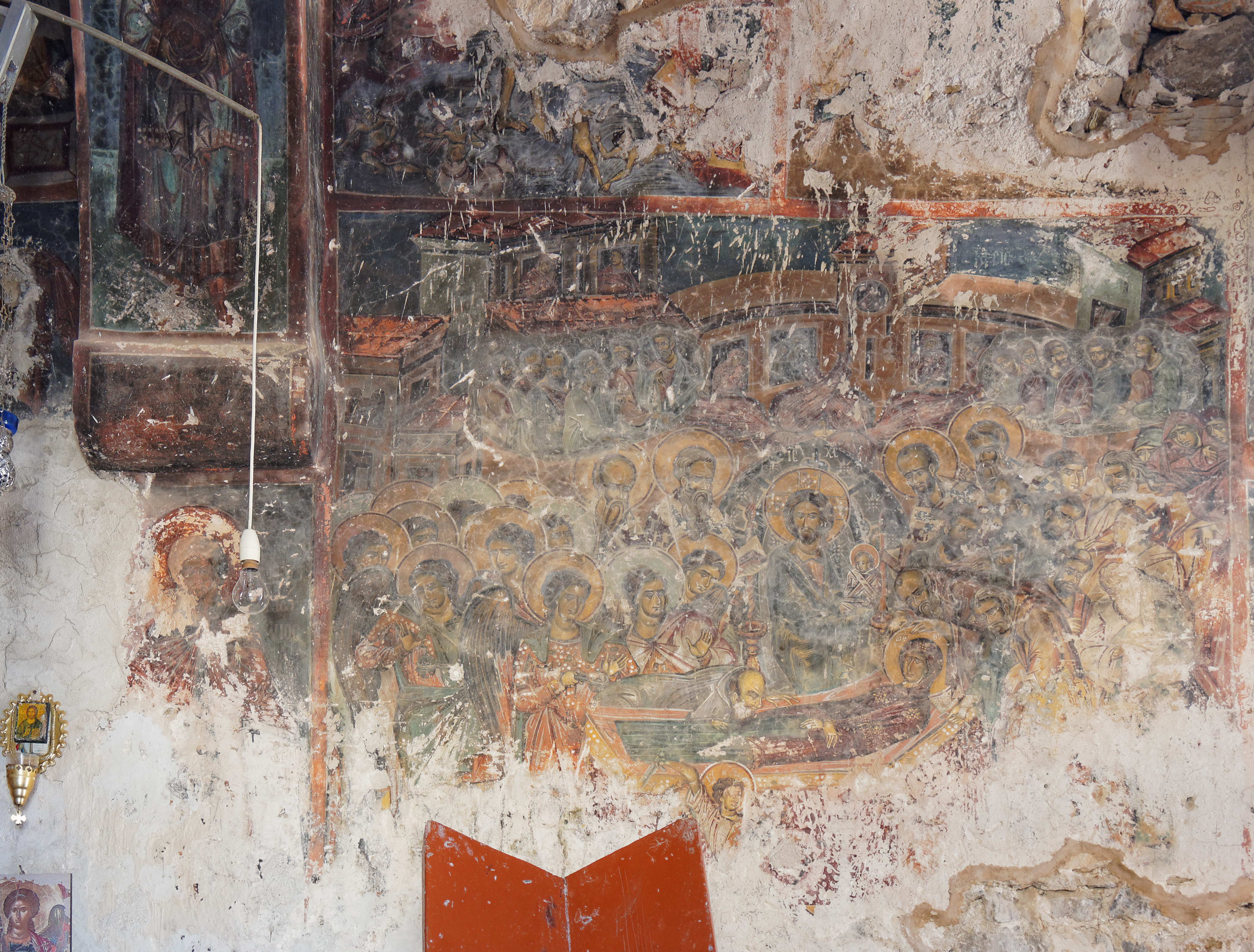 The fresco of the Dormition of Theotokos at Michael Archaggel church, Monastiraki, Amari, Crete.